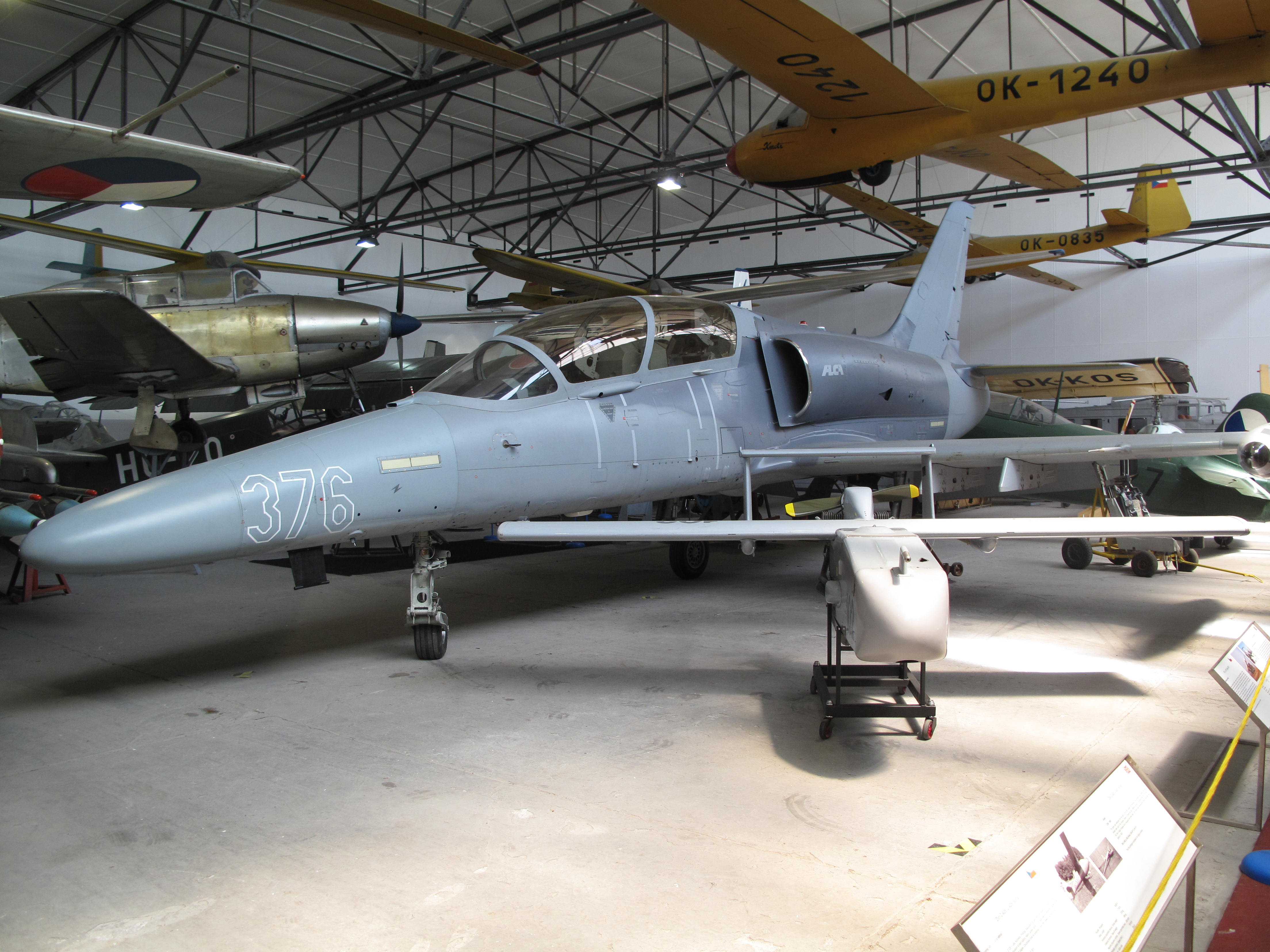 Aero L-159 ALCA